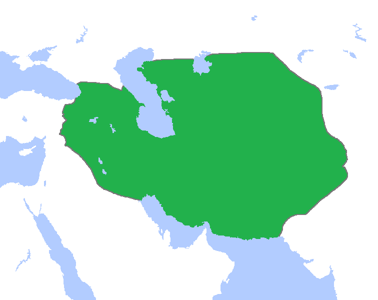 Locator map of the Timurid Empire, c. 1400. — Western and Central Asia. (Partially based on Atlas of World History (2007) - The World 1300-1400, map)